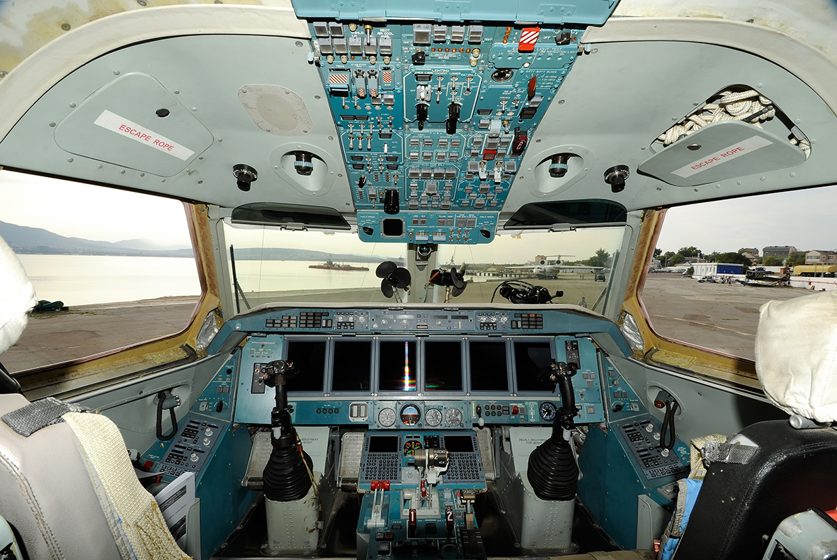 Be-200. 21512. Cockpit.